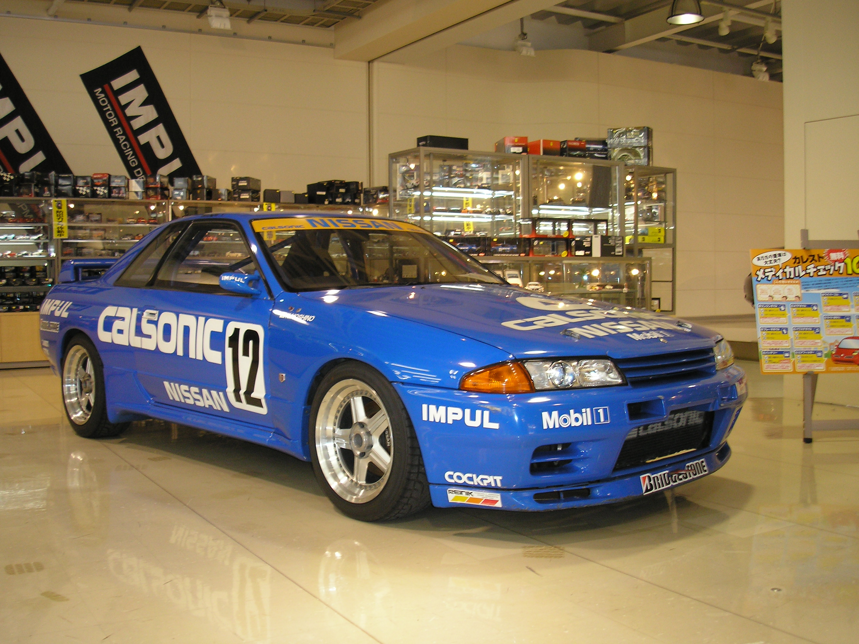 Nissan Skyline R32 Calsonic race car, photographed in Nissan Carest showroom in Chiba, Japan